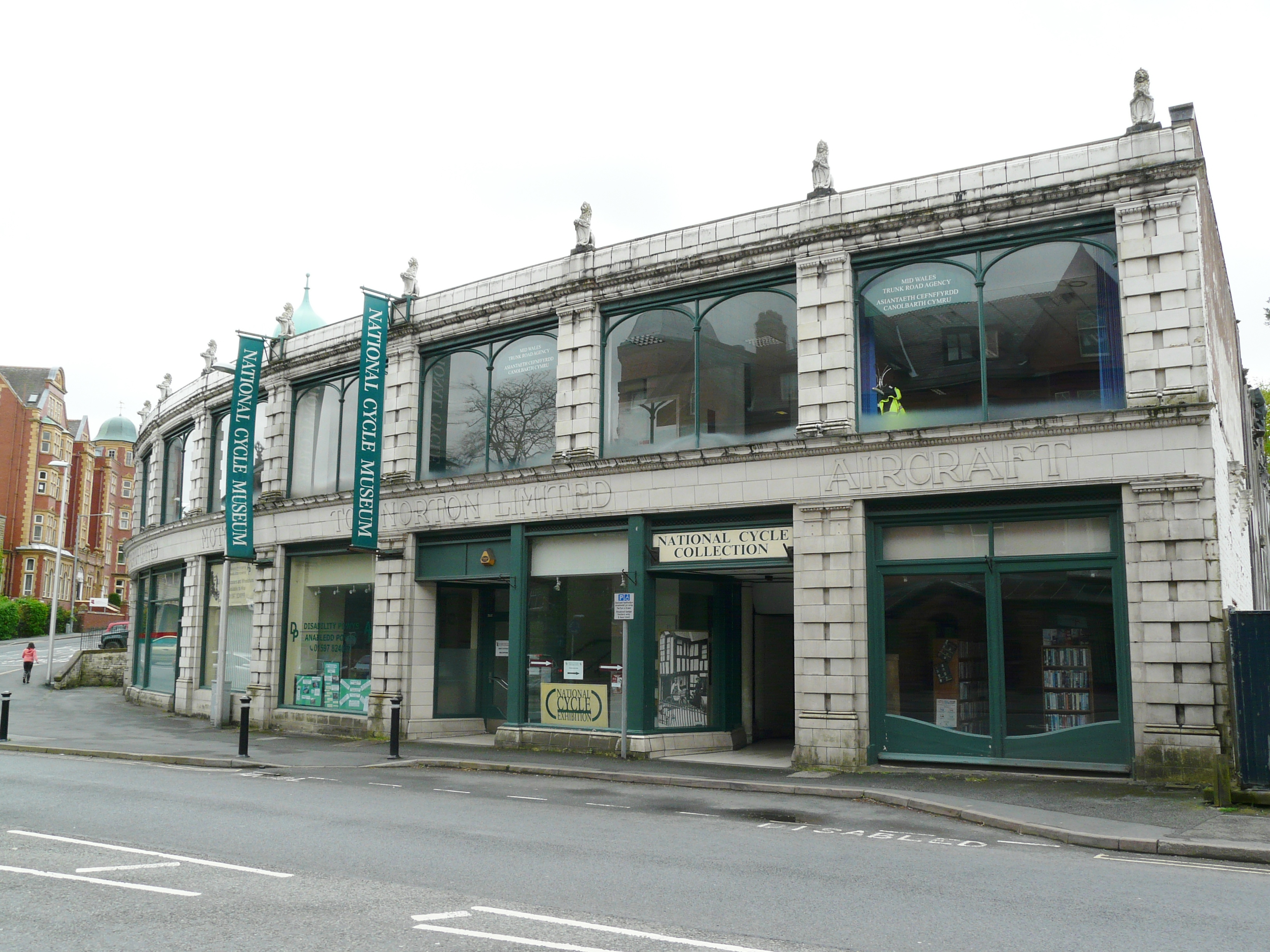 The Automobile Palace Wikidata has entry Q17739218 with data related to this building.